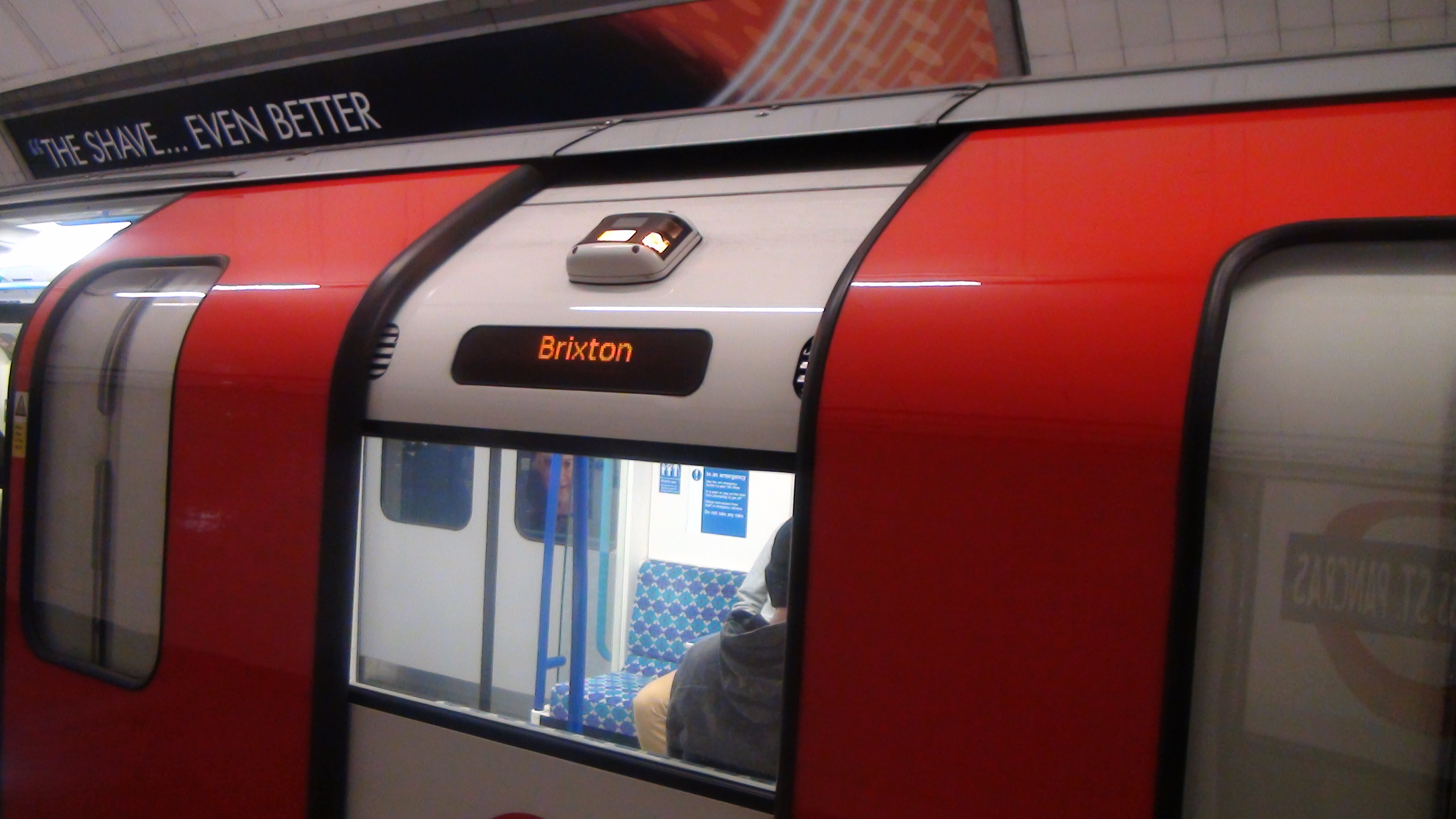 Dot matrix display outside London Underground 2009 stock carriages